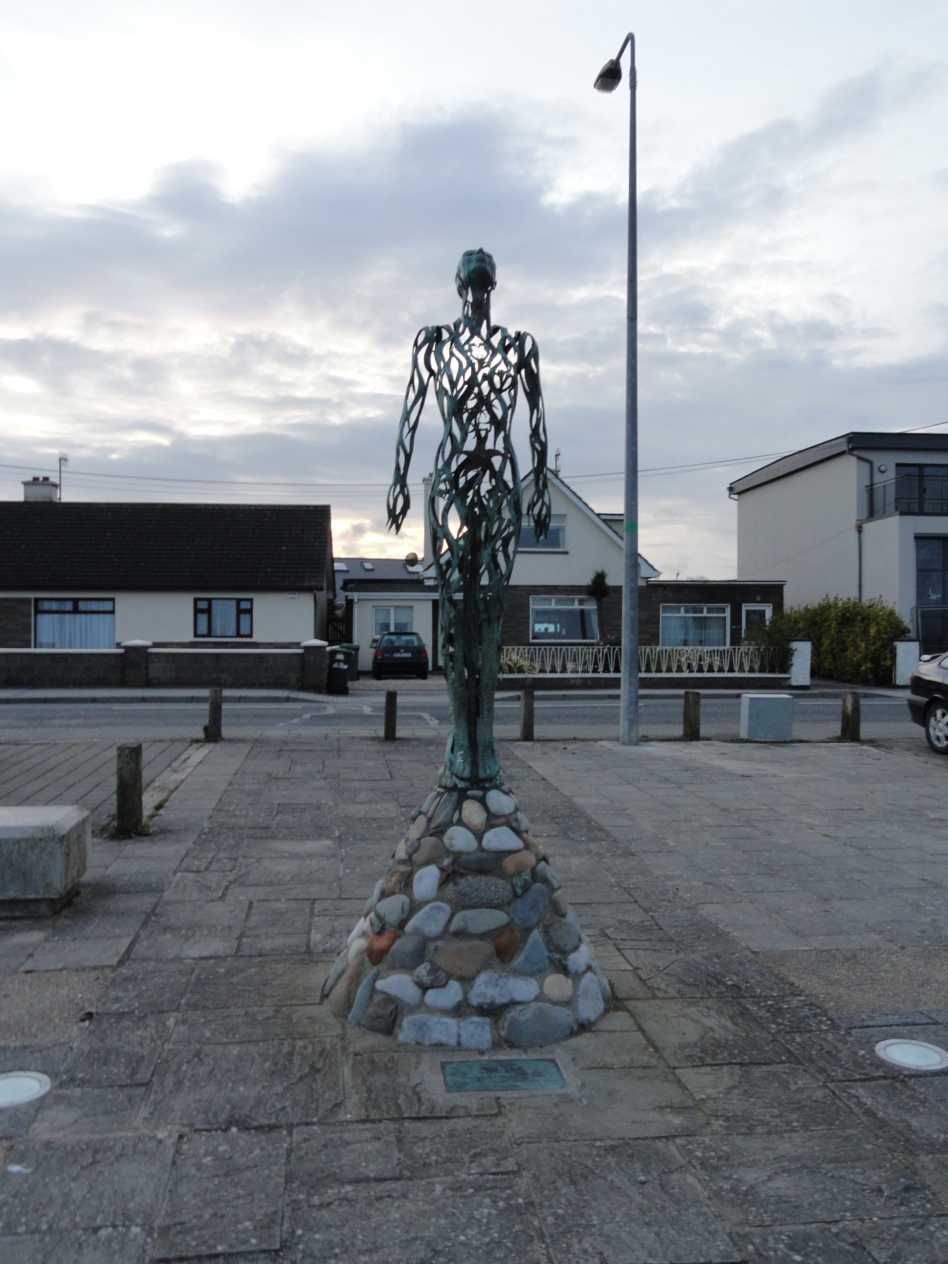 Photo of beachfront sculpture in Laytown, Co. Meath. By Linda Brunker, unveiled 2004